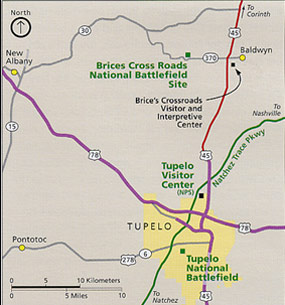 Area map of Tupelo, Mississippi, showing city limits, roads, and national parks or historic landmarks. Map by US NPS.